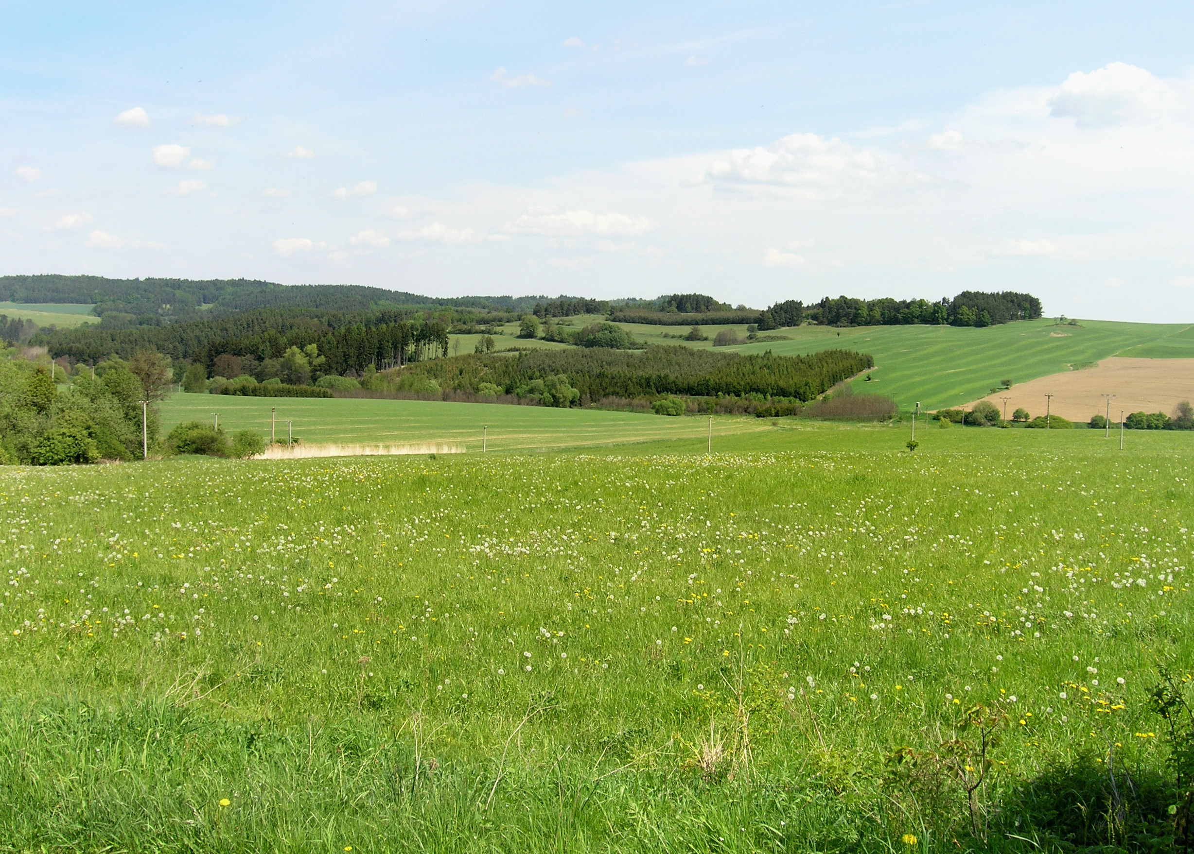 Pilkovy Mountains by Heřmaničky village, Czech Republic